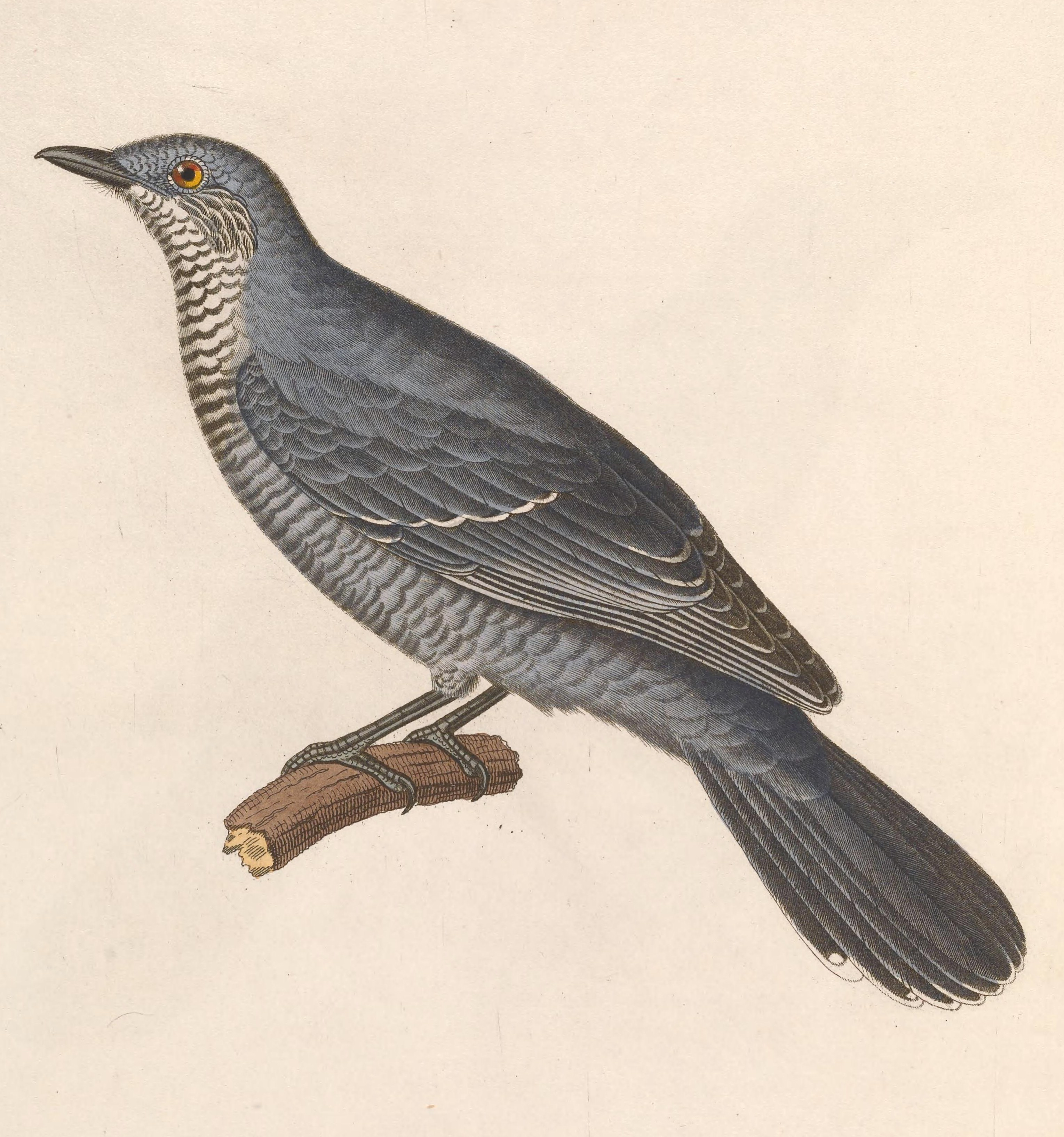 « Ceblephyris fimbriatus » = Coracina fimbriata (Lesser Cuckooshrike) - female